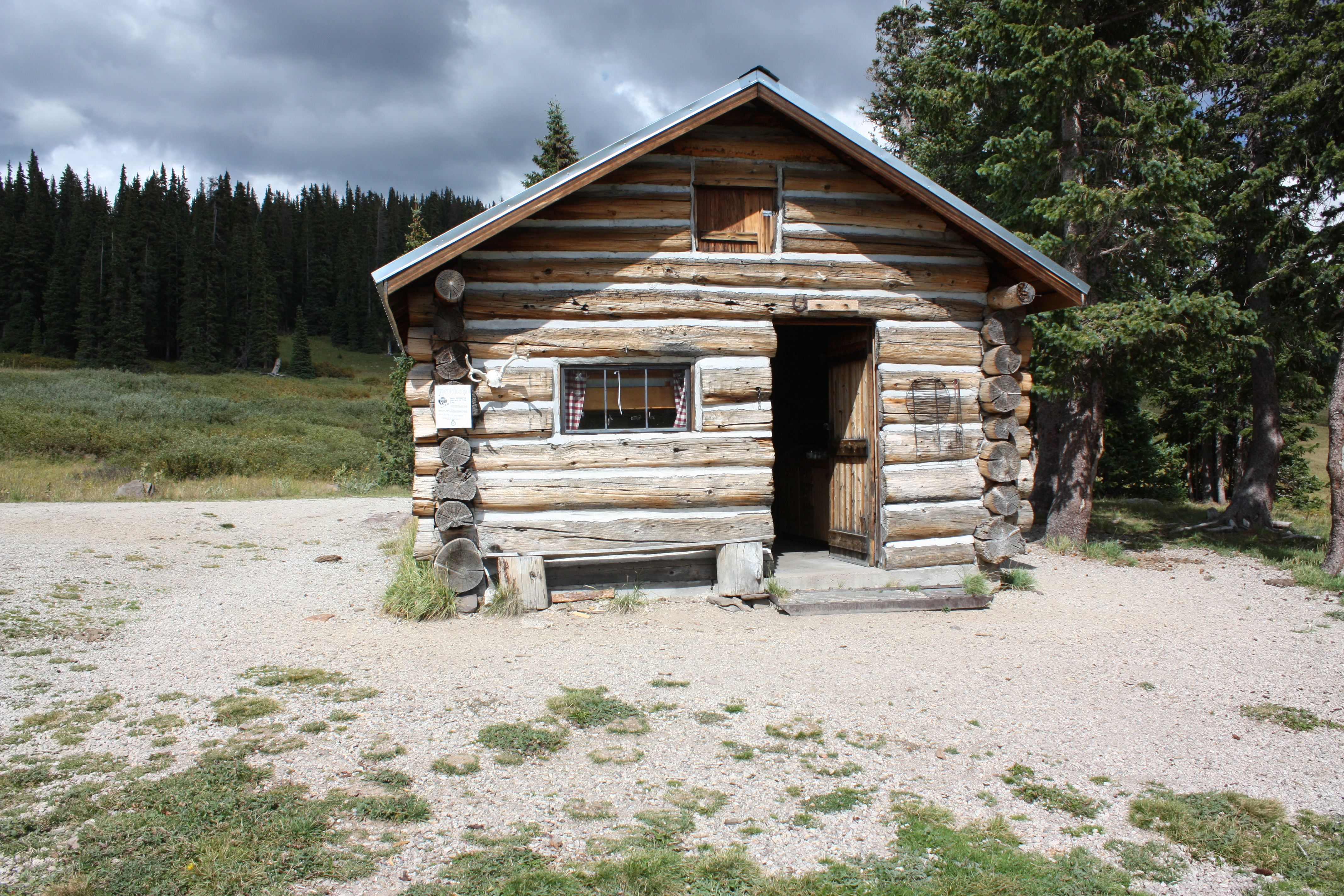 This is Elwood Cabin, a national forest service log cabin located in the Rio Grande National Forest near Summitville, Colorado, in the southern Rocky Mountains of Colorado.